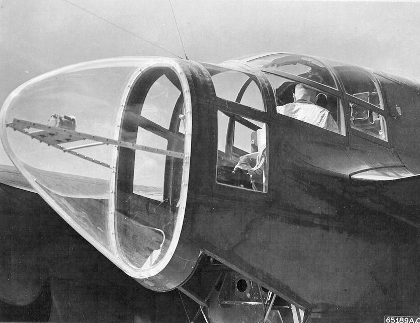 Good view of the P-61 night fighter's radar operators compartment in the rear of the fuselage. Photo was taken on Saipan,Marianas Islands on July 20,1944.